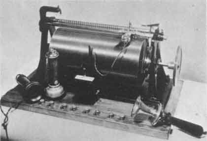 Valdemar Poulsen "Telegraphone" Magnetic Wire recorder, 1898